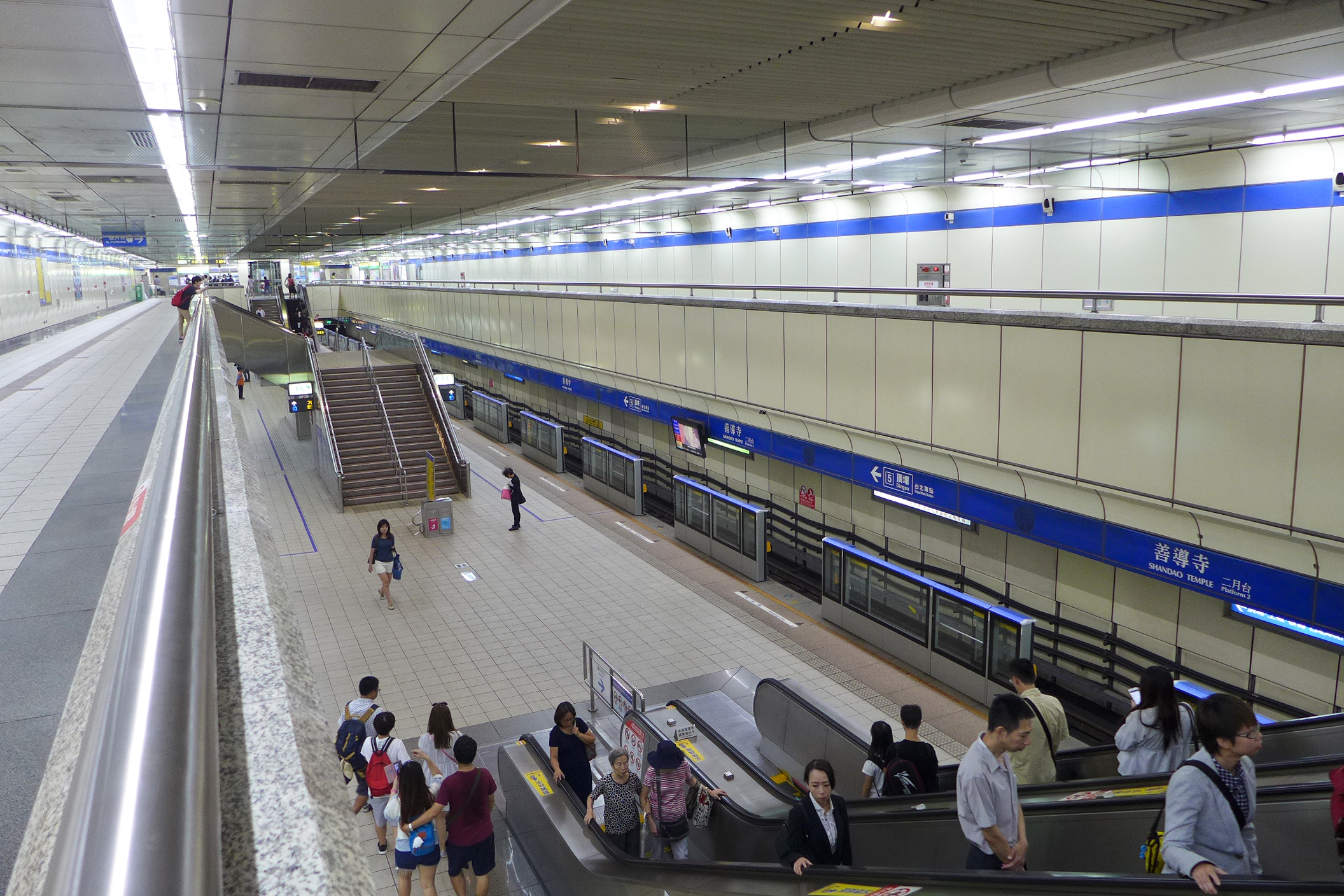 Shandao Temple Station Platform